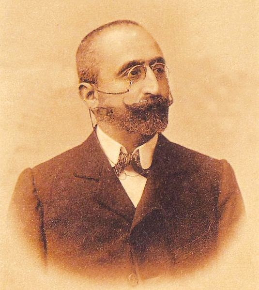 Romanian politician Alexandru C. Cuza, notorious antisemitic.